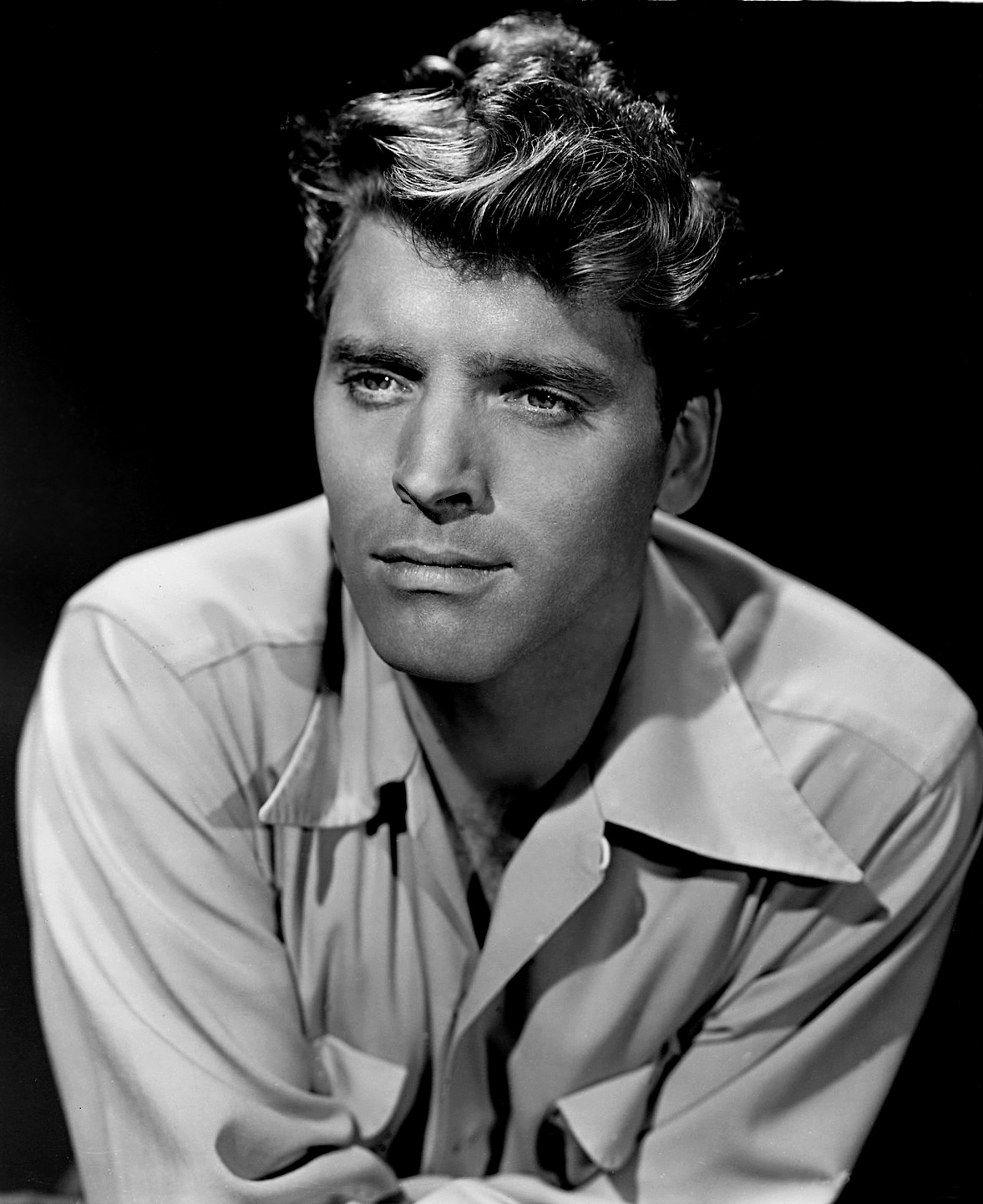 Original studio publicity photo of Burt Lancaster for the film Desert Fury (1947).